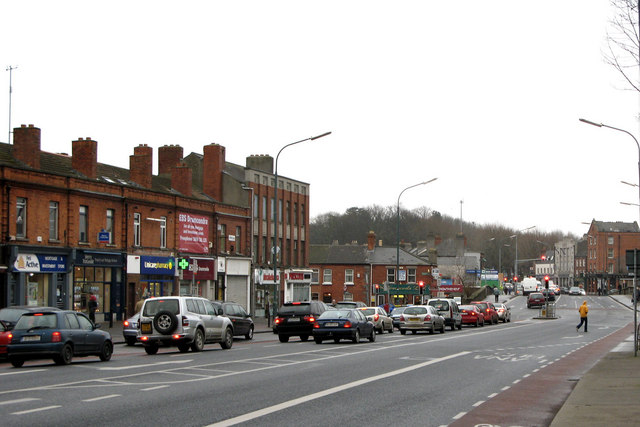 Drumcondra Road Upper, Drumcondra, Dublin, Ireland A suburb of North Dublin and the home of Irish Taoiseach Bertie Ahern. The River Tolka runs west to east just past the modern office on the left hand side of the picture.